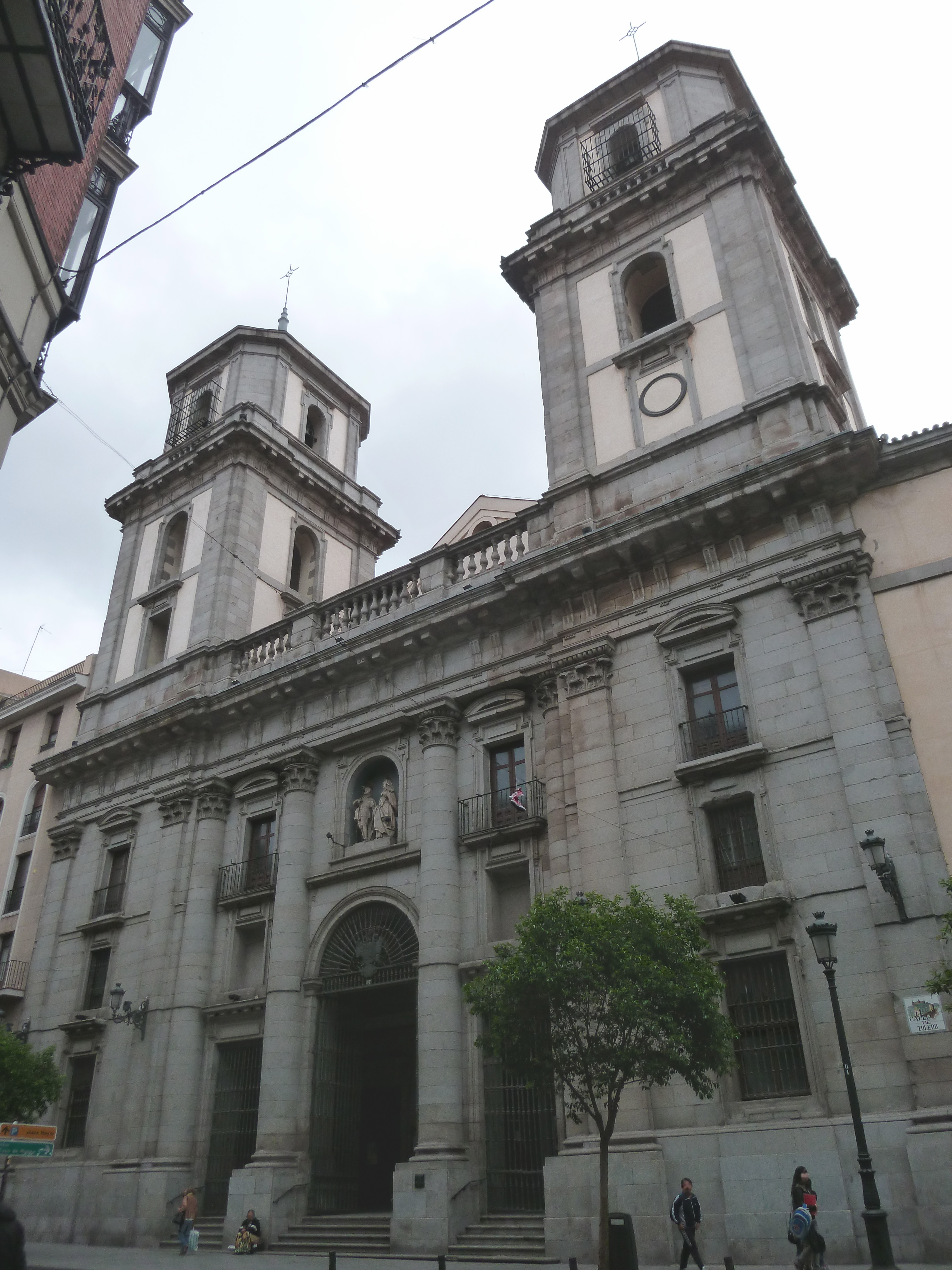 Façade of Collegiate Church of St. Isidore in Madrid (Spain).